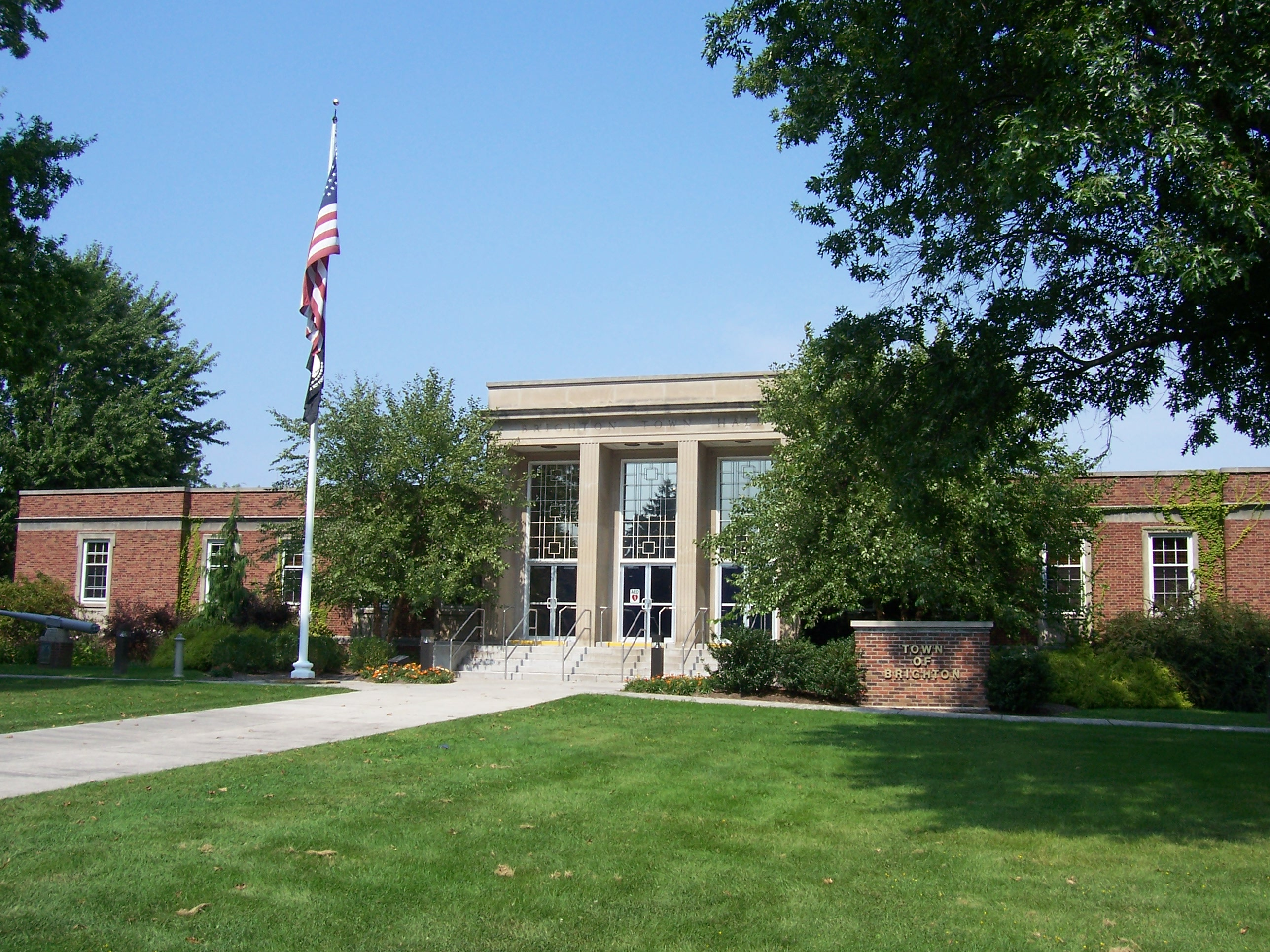 Brighton, Monroe County, New York town hall